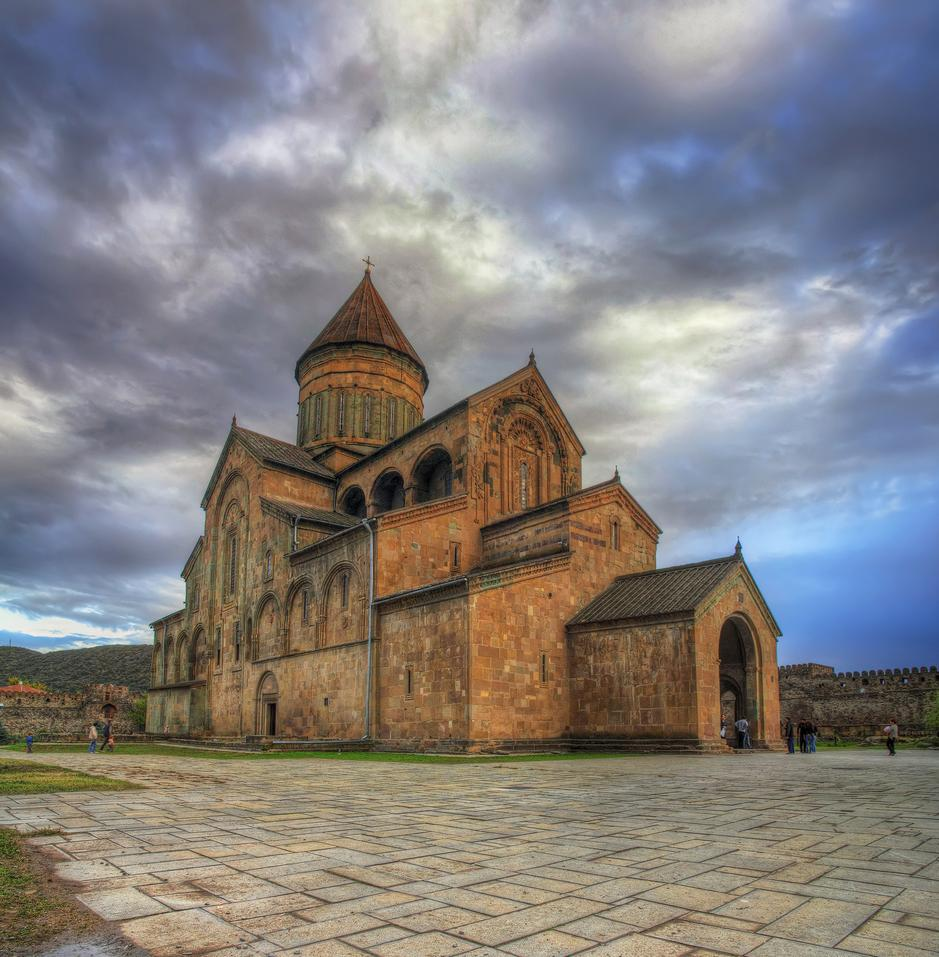 Colorful Version Mtskheta, Georgia. Svetitskhoveli Cathedral is a Georgian Orthodox cathedral located in the historical town of Mtskheta, Georgia, 20 km (12.5 miles) northwest of the nation's capital of Tbilisi. Svetitskhoveli, known as the burial site of Christ's mantle, has long been the principal Georgian church and remains one of the most venerated places of worship to this day. It presently functions as the seat of the archbishop of Mtskheta and Tbilisi, who is at the same time Catholicos-Patriarch of All Georgia. ავტორი: პაატა ლიპარტელიანი Author: Paata Liparteliani